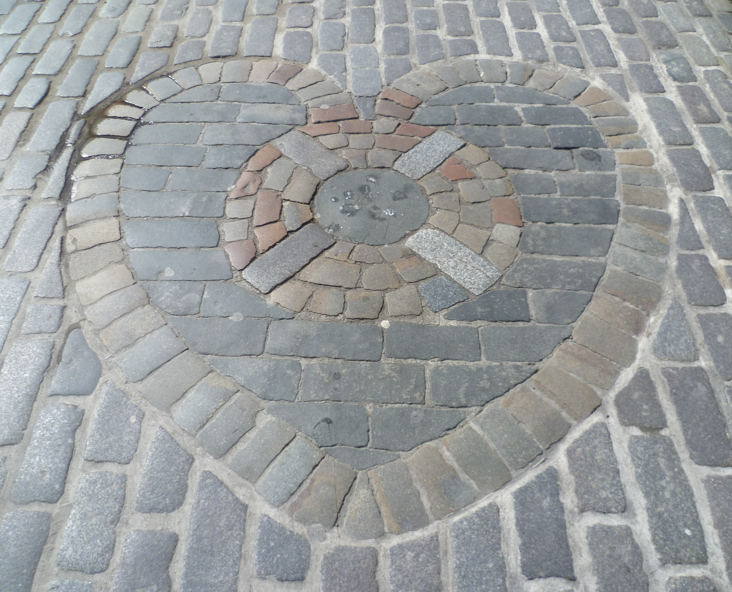 The Heart of Midlothian, High Street Edinburgh